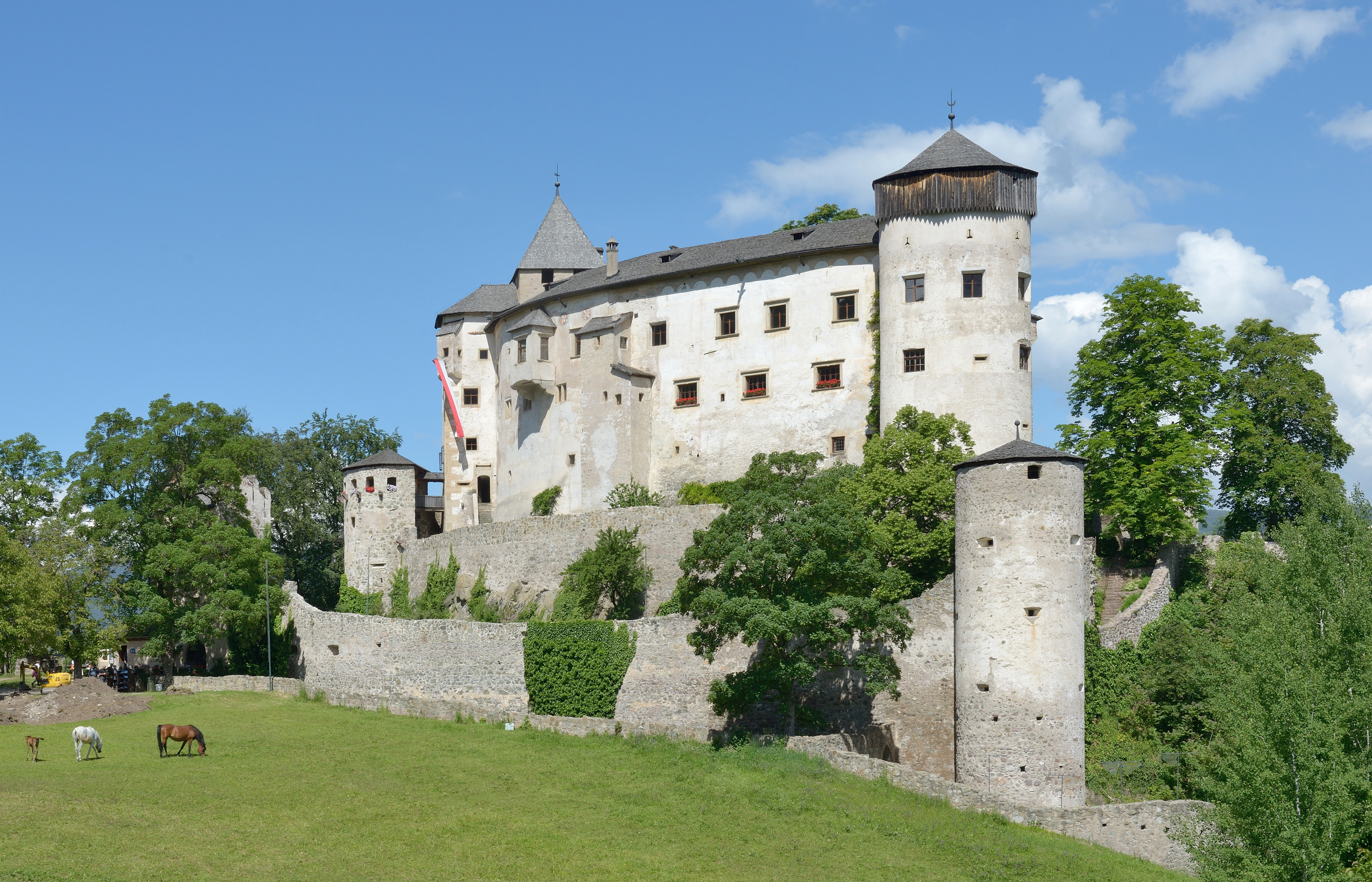 Prösels castel in Völs am Schlern